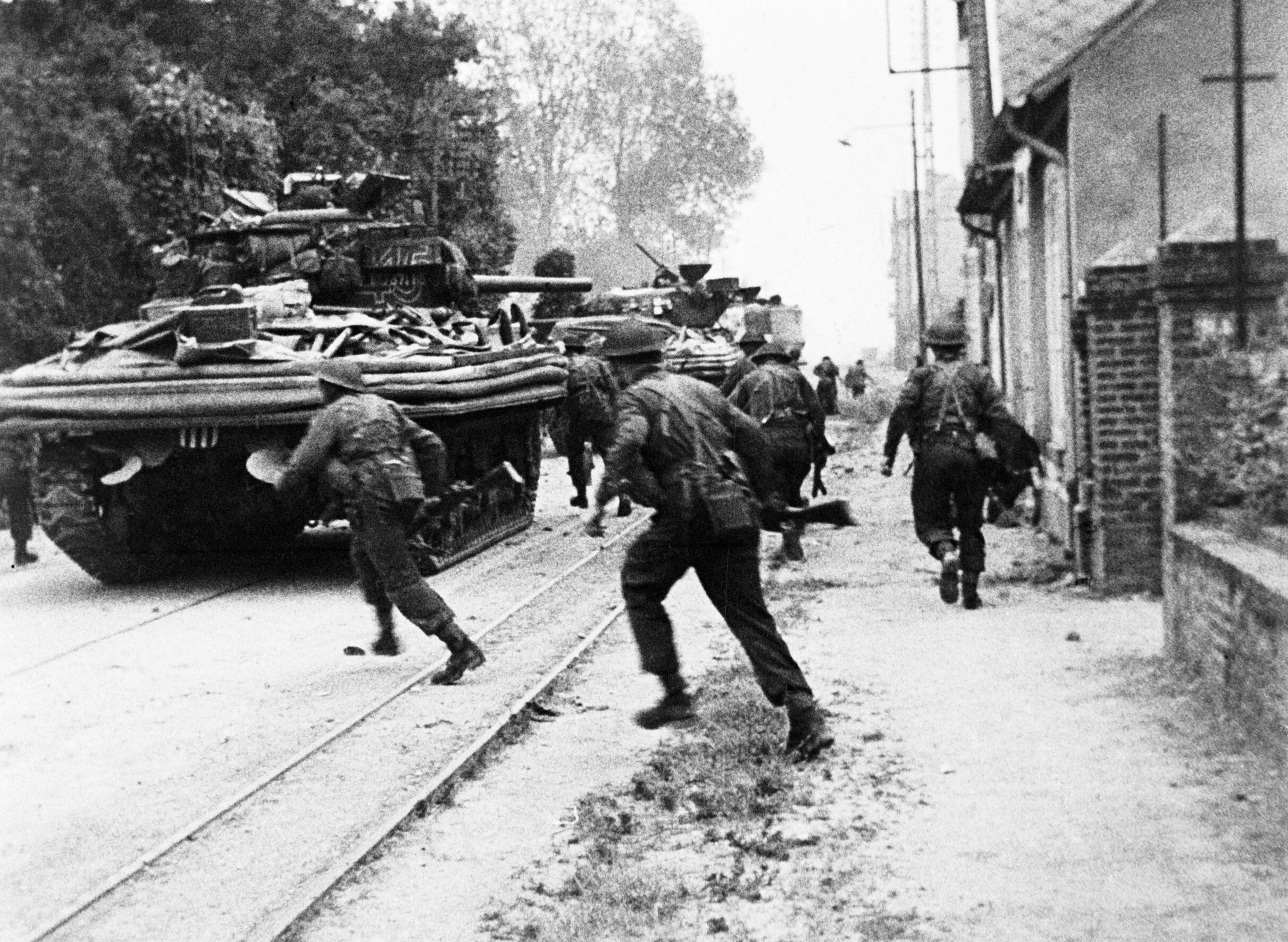 The British 2nd Army: Men of No 4 Commando engaged in house to house fighting with the Germans at Riva Bella, near Ouistreham. Sherman DD tanks of 'B' Squadron, 13/18th Royal Hussars are providing fire support and cover. After subduing the opposition, No 4 Commando moved inland to link up with 6th Airborne Division